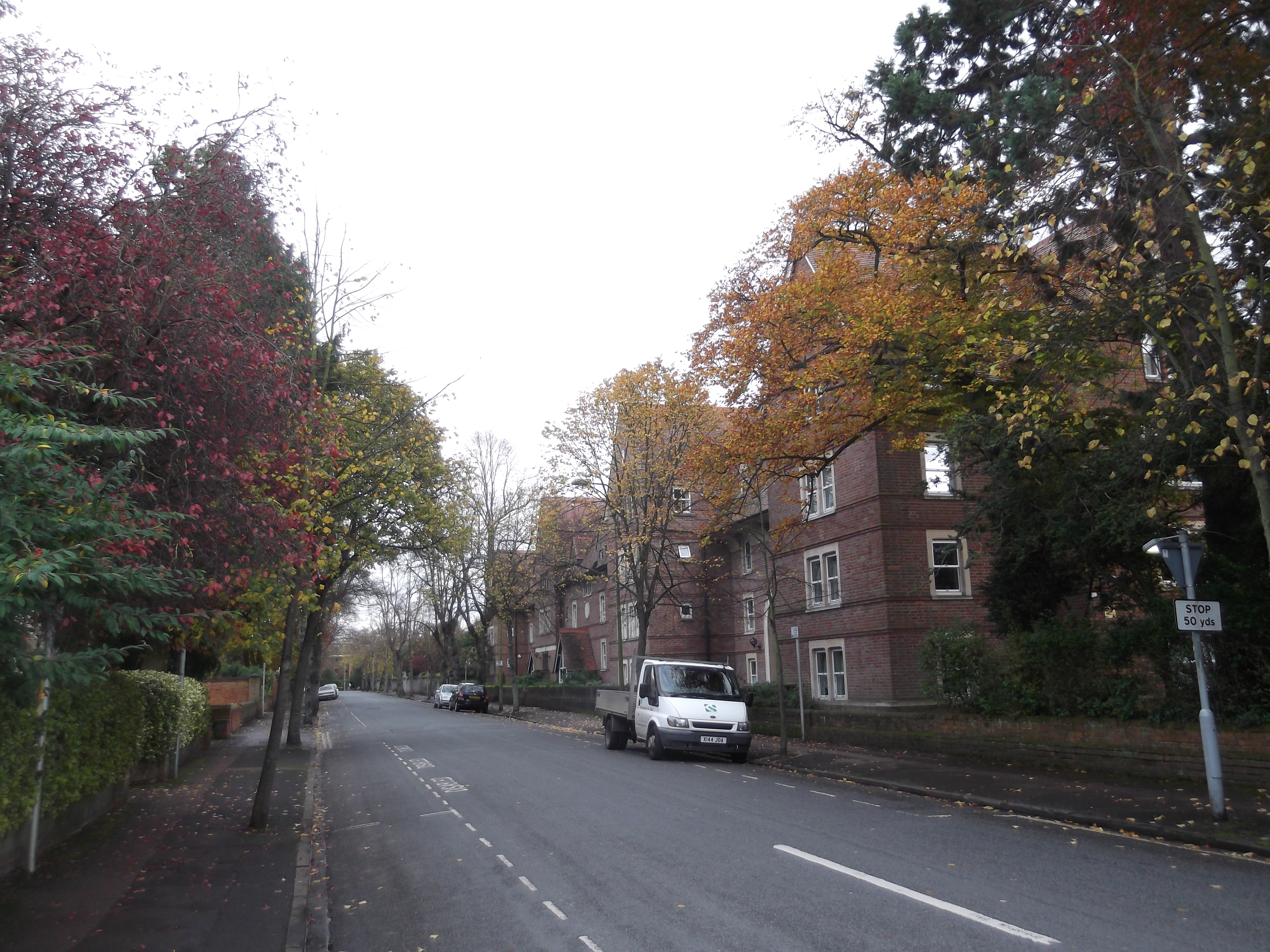 Street in north Oxford, England.